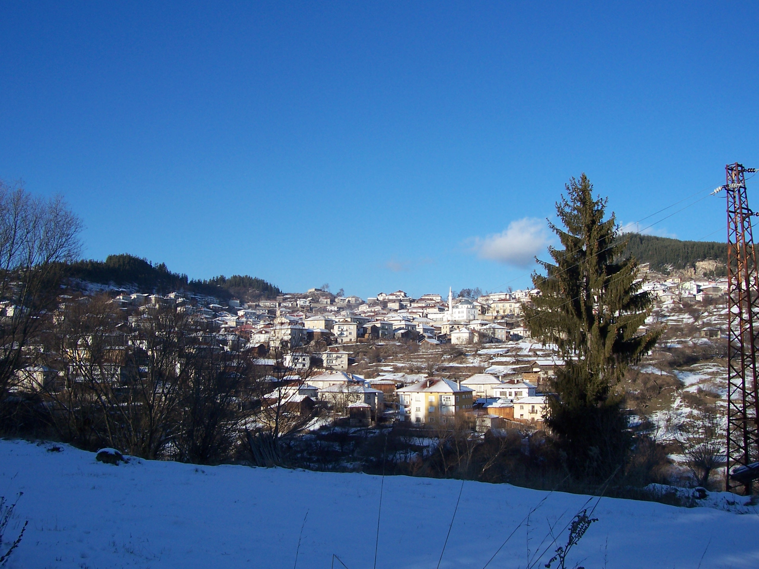 The town of Dospat.